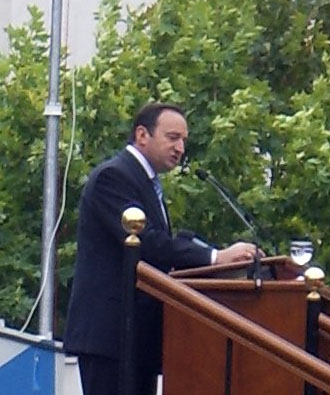 Pedro Sanz, president of Autonomous Community of La Rioja, Spain, in the official act of the "pisado de la uva", Festivity of San Mateo (2006)